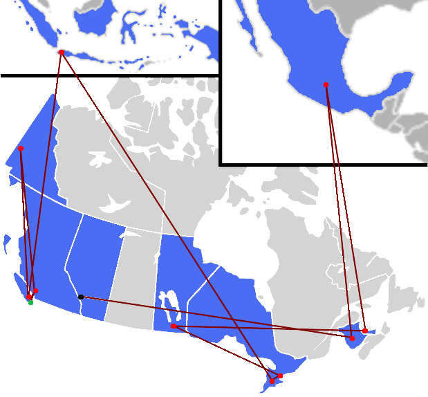 Racecourse for The Amazing Race Canada 6.